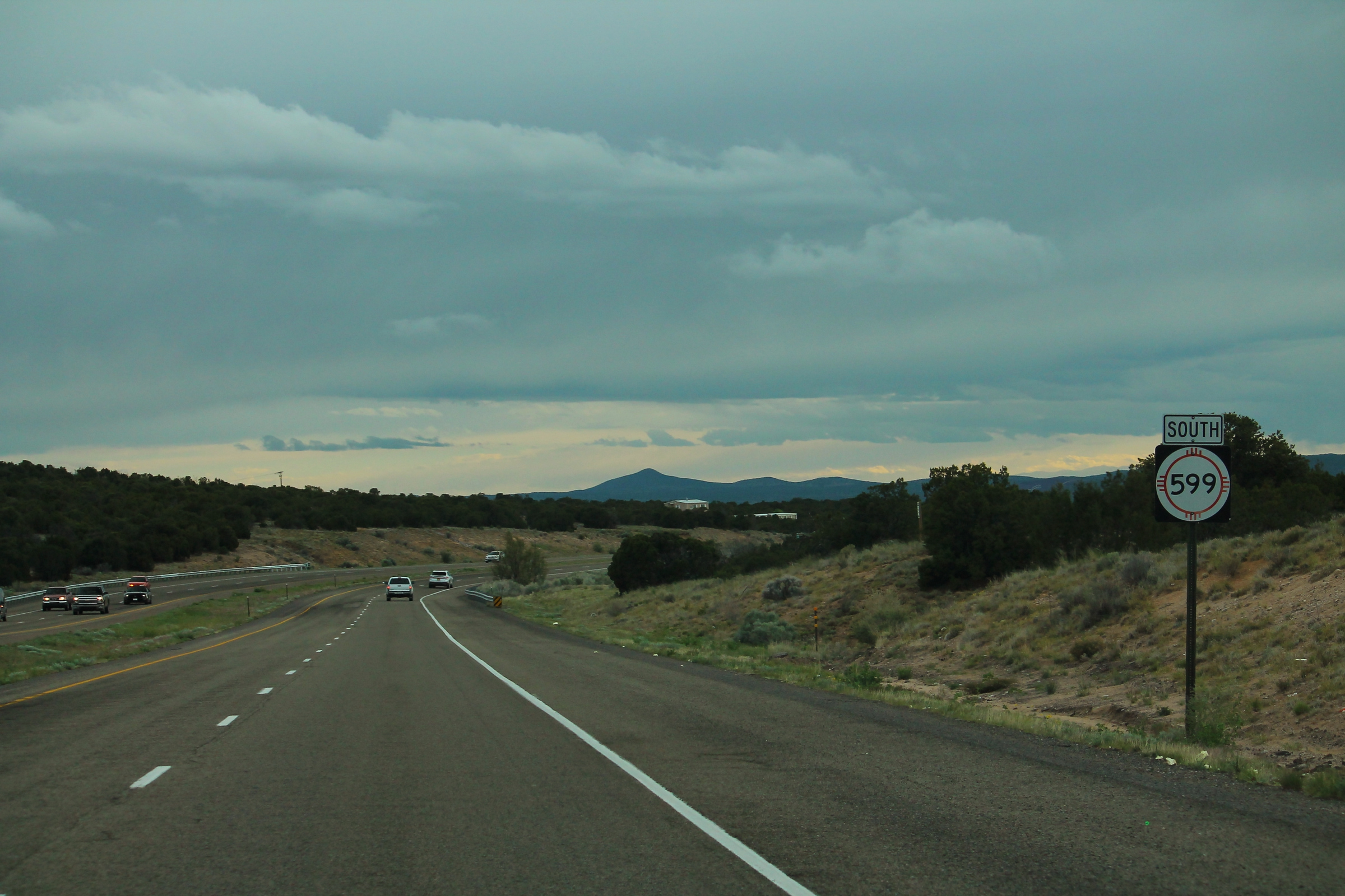 NM599 South Sign Evening